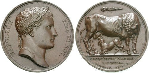 Napoleonic France. Napoleon I. As Emperor, 1804-1815. Æ Medal (40mm, 43.01 g, 12h). Commemorating the conquest of Illyria. Andrieu and DePaulis, engravers; Denon, medal mint director. Dated 1809. Laureate head right Bull (? cow) standing right, head turned back toward calf suckling left; club above. Bramsen 879. Superb EF, brown surfaces. With NGC ticket graded MS 63 BN.